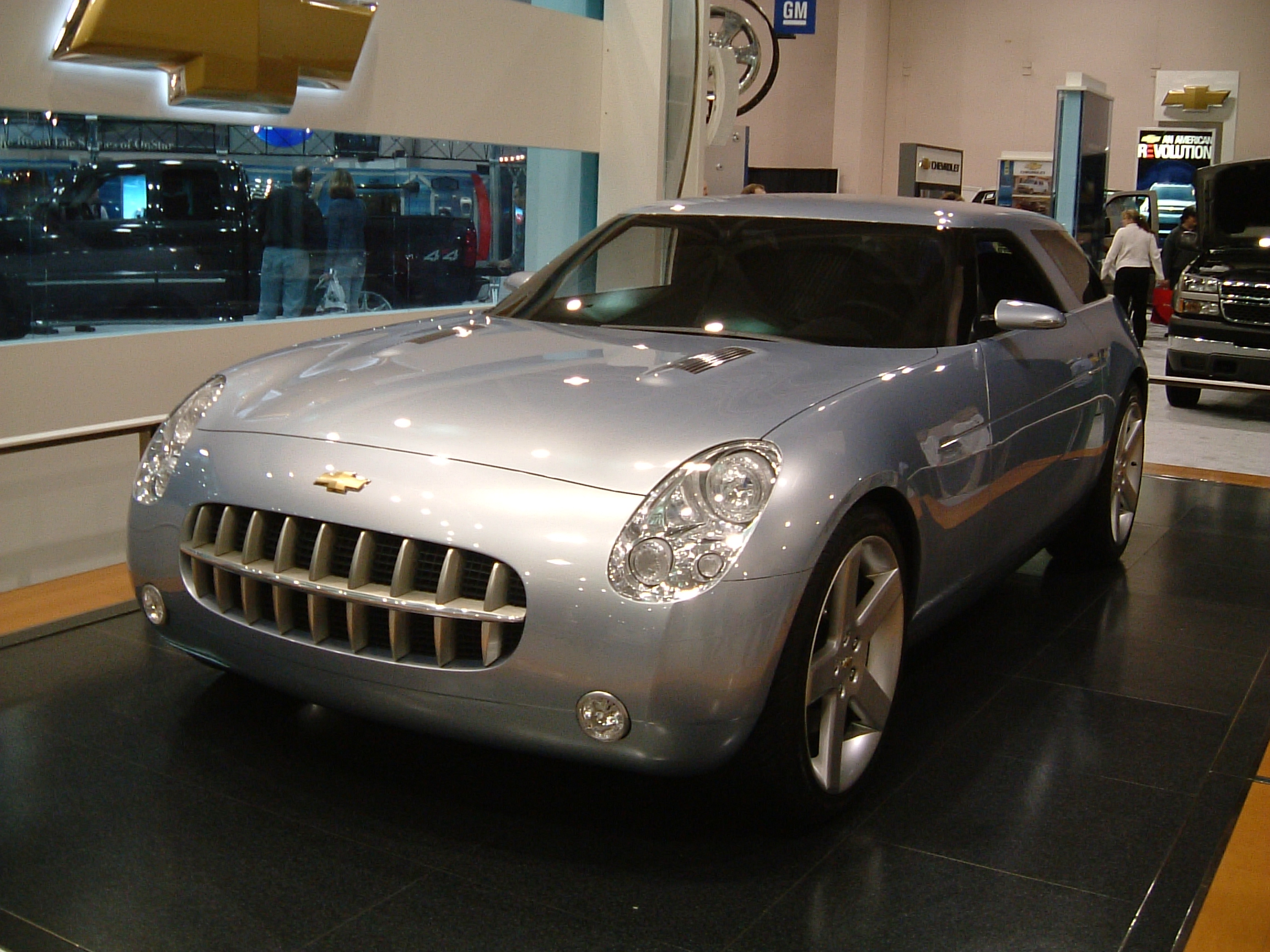 Chevy Nomad concept (2004)